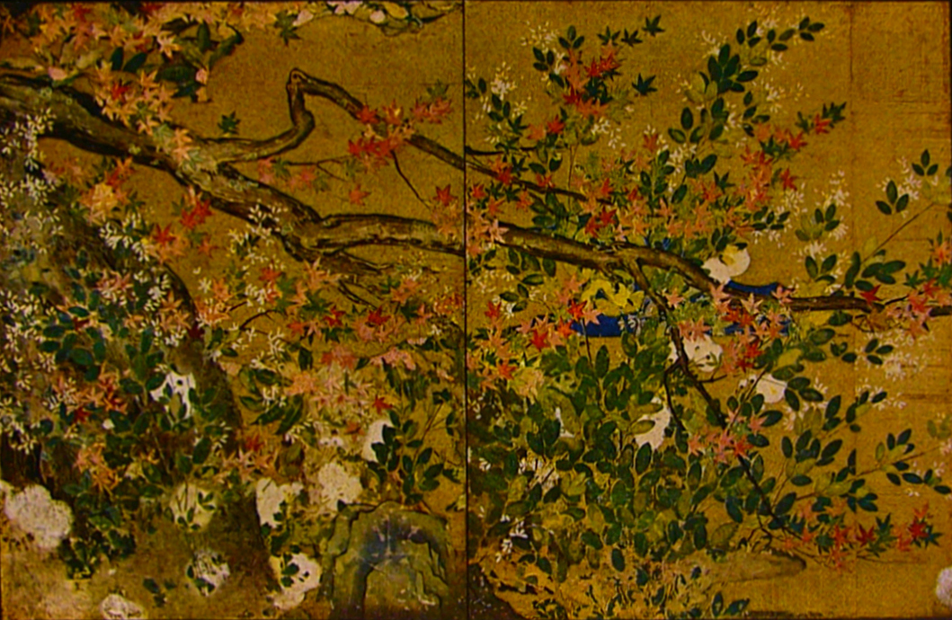 Maple-tree, Color on gold paper, 174cm height, ACE1593, Tishakuin temple, Kyoto, JAPAN